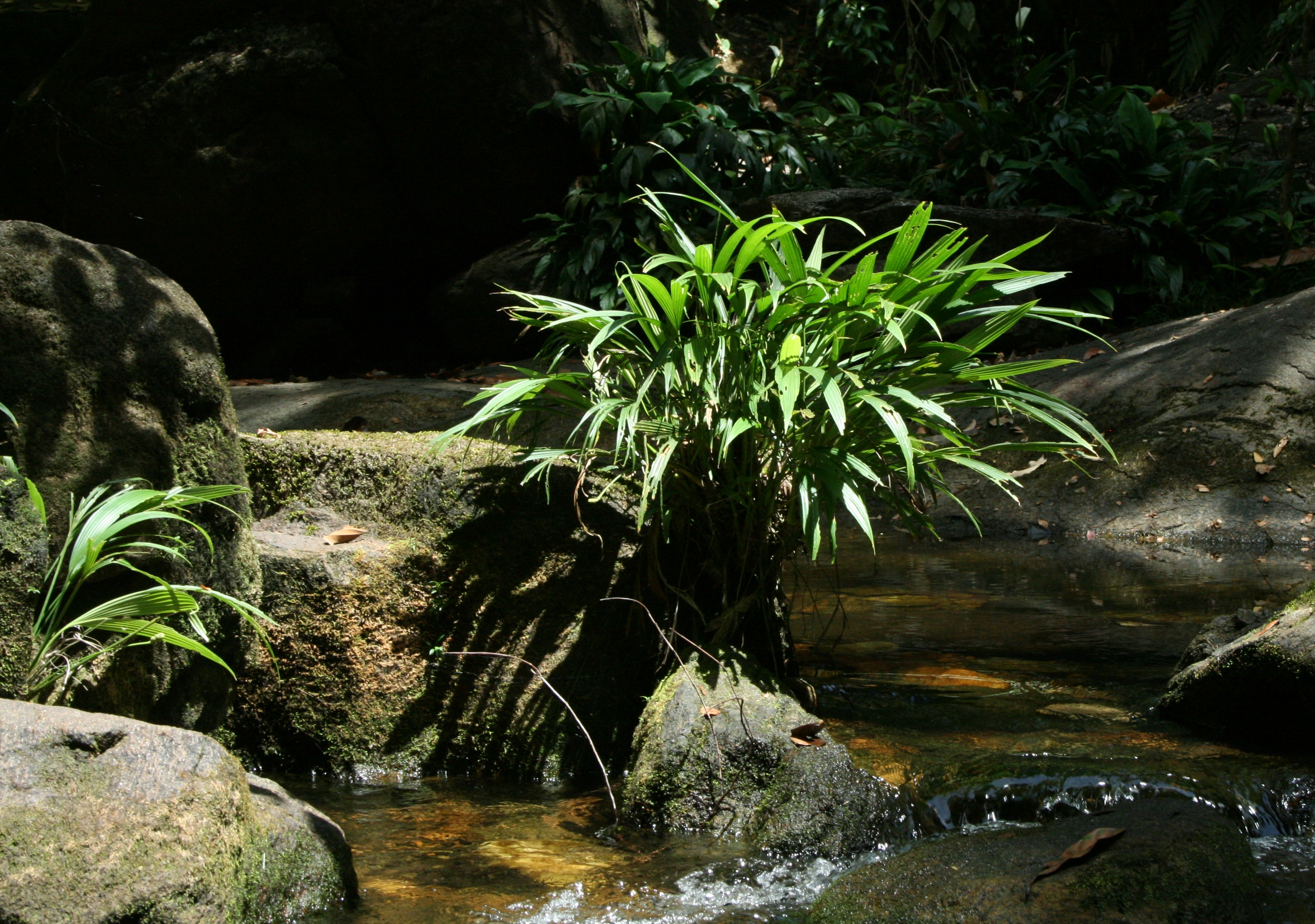 Plant of Dicranopygium yacu-sisa, Rio Tabaro, Venezuela